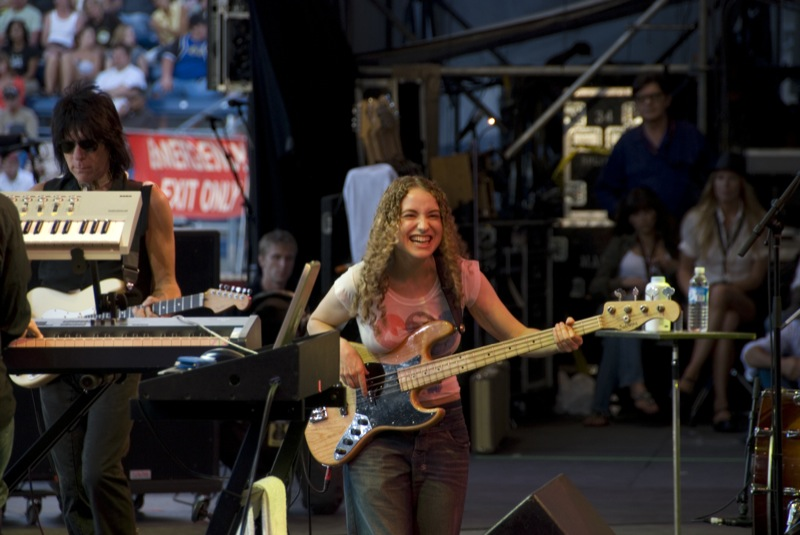 Tal Wilkenfeld and Jeff Beck at Eric Clapton's Crossroads Benefit July 28, 2007.